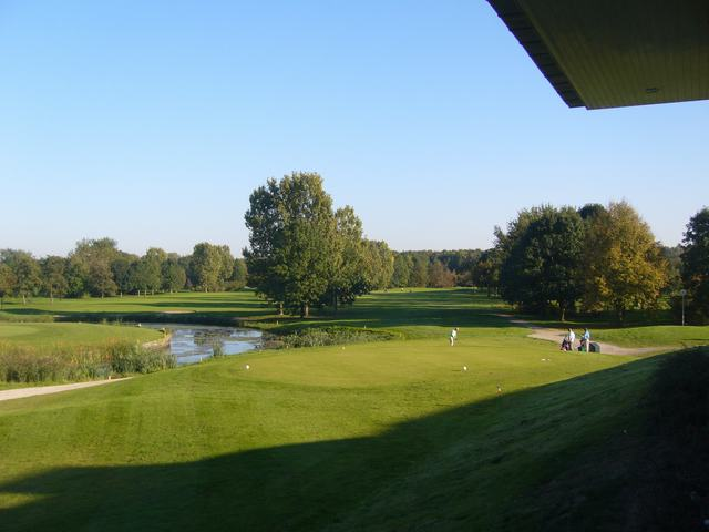 Golfclub Almeerderhout, Almere, Netherlands